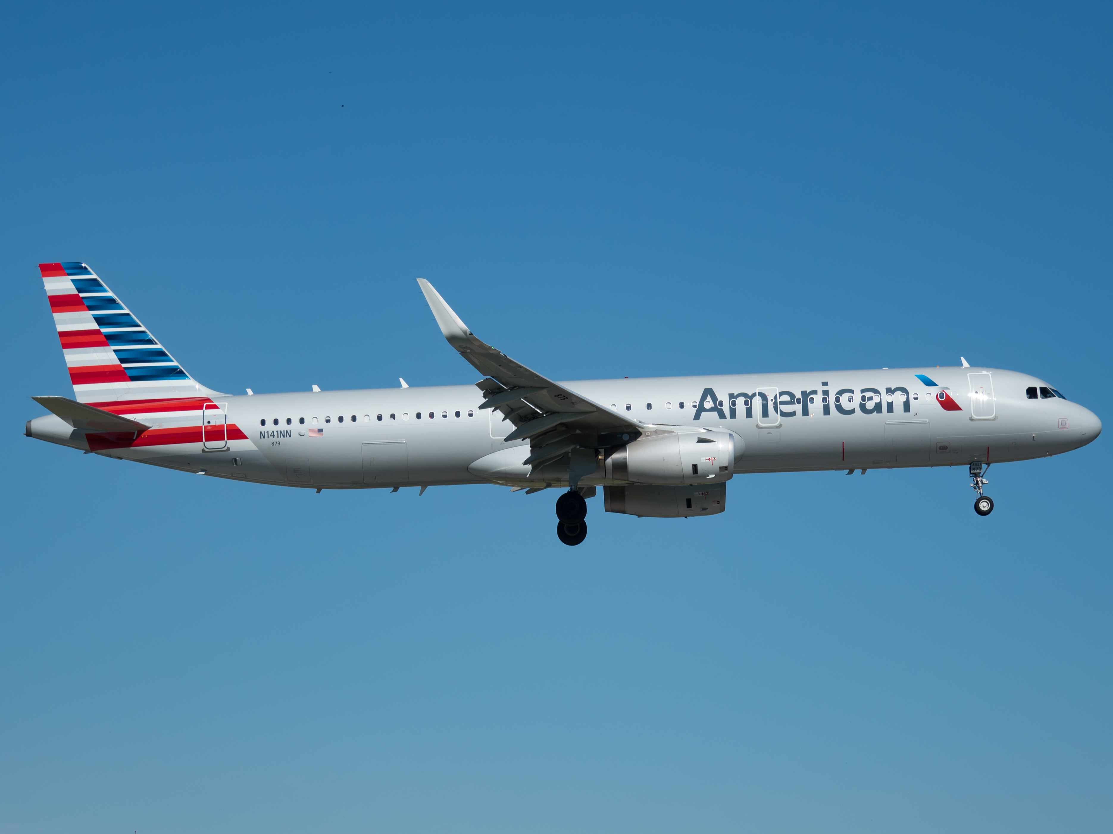 American Airlines Airbus A321-231(WL) at Miami International Airport